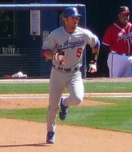 User:Chrisjnelson agreed to license this image of Nomar_Garciaparra.jpg under a free attribution license. Any use of this image must be attributed; this means that Photo by :en:User:Chrisjnelson|Chris Nelson should be in the picture caption. 00:43, 21 April 2008 . . Chrisjnelson . . 270×311 (104 KB)